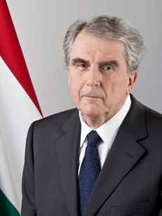 Miklós Réthelyi, Hungarian politician, Minister of National Resources in the Second Cabinet of Viktor Orbán